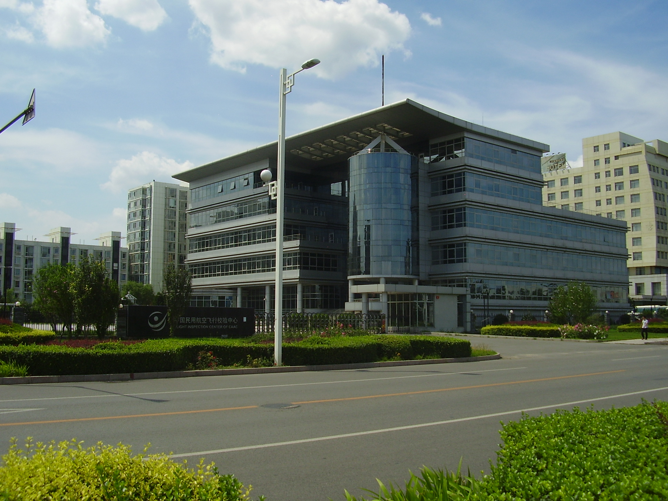 Flight Inspection Center of CAAC (S: 中国民用航空局飞行校验中心, T: 中國民用航飛行校驗中心, P: Zhōngguó Mínyòng Háng Fēixíng Jiàoyàn Zhōngxīn)